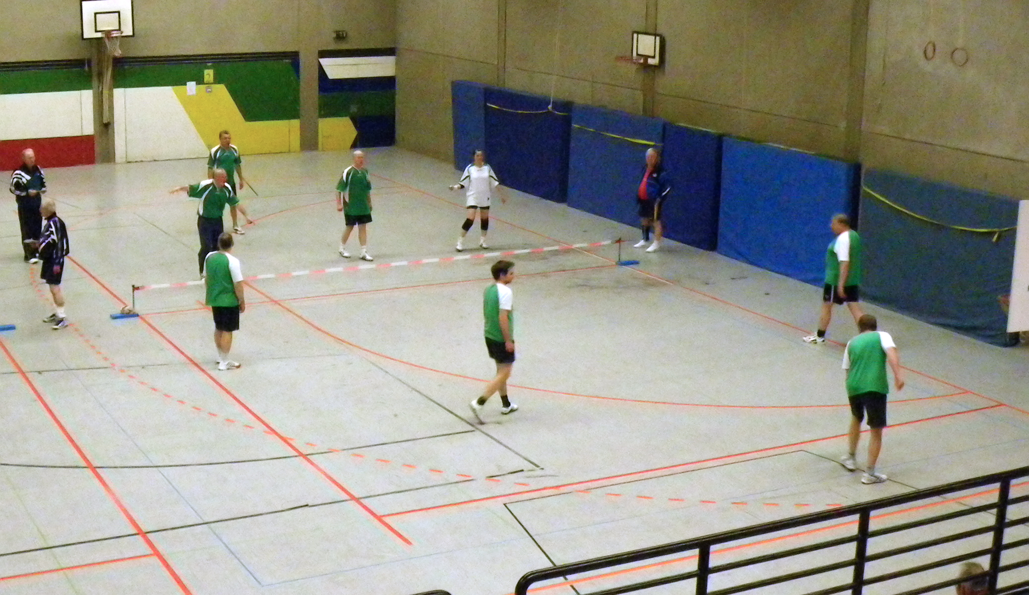 Photo of a non-professional "Prellball"-match.